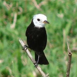 white-headed marsh-tyrant